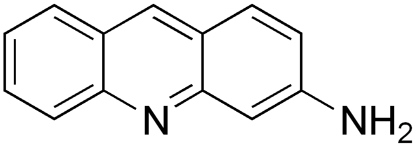 chemical structure of 3-aminoacridine